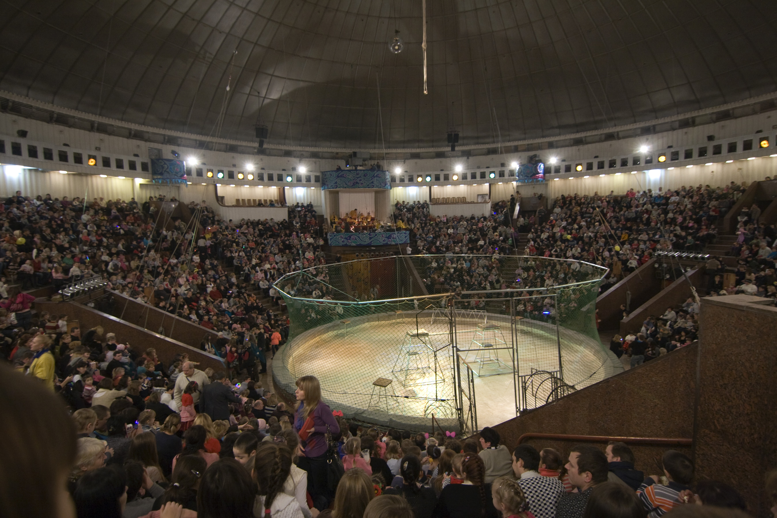 Before performance, Kiev Circus, January 2013